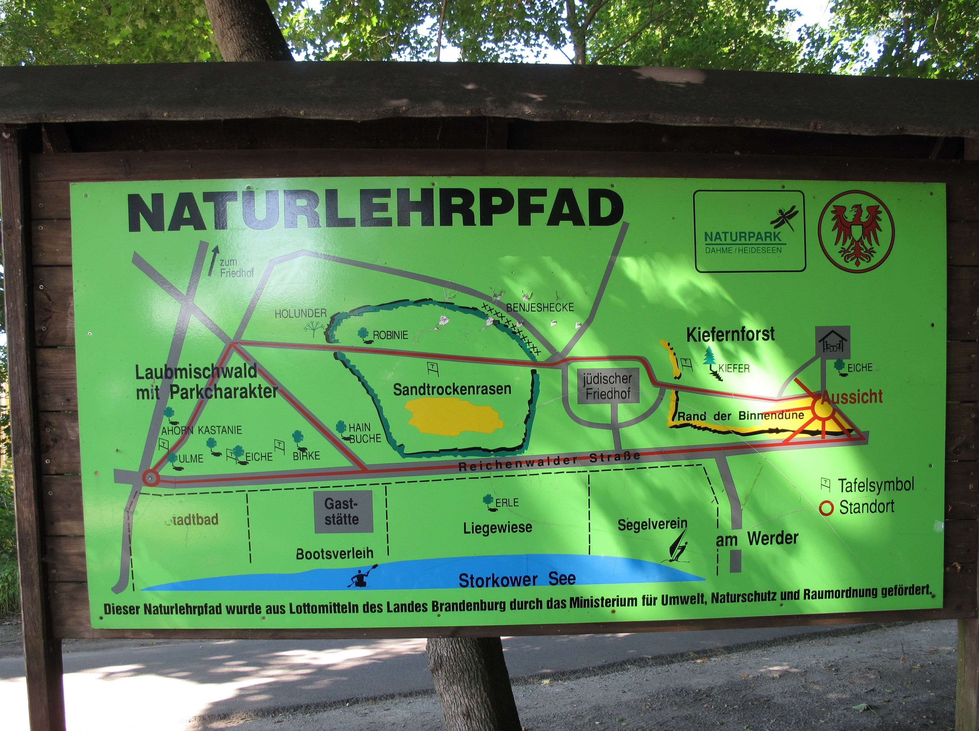 Map of the educational path „Binnendüne Waltersberge in Storkow (Mark)“, placed in 2011. The „Binnendüne Waltersberge“ is one of the largest inland dunes in Brandenburg, Germany. The dune is situated in the town Storkow, District Oder-Spree, just over the eastern border of the Dahme-Heideseen Nature Park. The centre of the area, which covers about 14 hectare, is designated as a Naturschutzgebiet (protected area) and Natura 2000-area. Nearly just beside the northern bank of the Großer Storkower See (lake), rises above the dune with its largest peak, the Storkower Weinberg (69 metres), up to 32 metres over the sea.